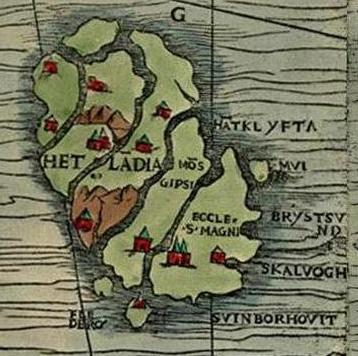 Description The Shetland Islands, on the Carta Marina Date1539SourceDetail from the Carta Marina, Image:Carta Marina.jpegAuthorOlaus Magnus (1490-1557)Permission(Reusing this file) Public domain Other versions Image:Carta Marina.jpeg (full image) This is a faithful photographic reproduction of a two-dimensional, public domain work of art. The work of art itself is in the public domain for the following reason: This work is in the public domain in its country of origin and other countries and areas where the copyright term is the author's life plus 100 years or fewer. You must also include a United States public domain tag to indicate why this work is in the public domain in the United States. This file has been identified as being free of known restrictions under copyright law, including all related and neighboring rights. The official position taken by the Wikimedia Foundation is that "faithful reproductions of two-dimensional public domain works of art are public domain".This photographic reproduction is therefore also considered to be in the public domain in the United States. In other jurisdictions, re-use of this content may be restricted; see Reuse of PD-Art photographs for details. The Shetland Islands, on the Carta Marina